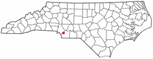 Category:North Carolina Dot Maps